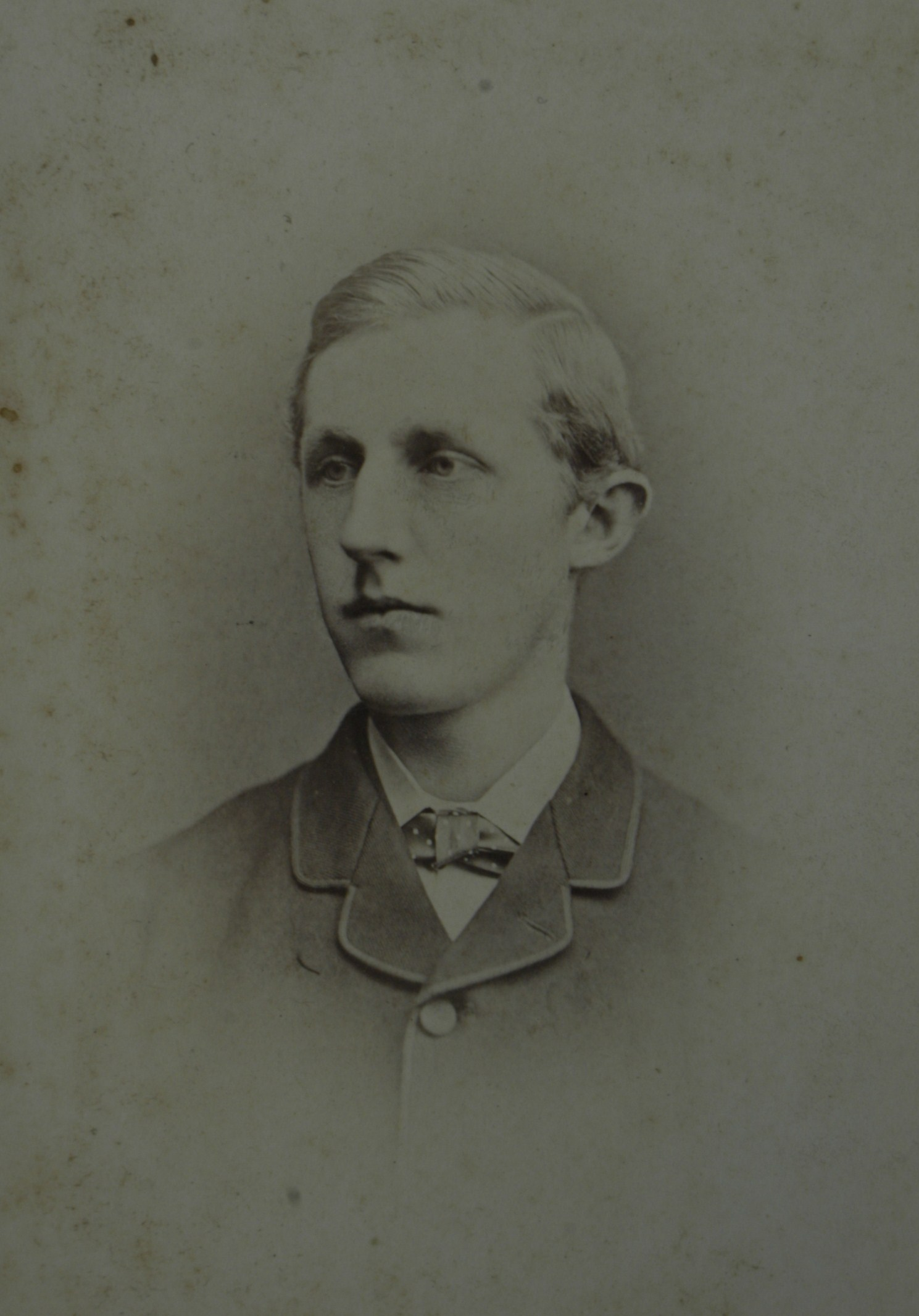 Photo (by me, R. de SalisRodolph (talk) 23:00, 2 July 2014 (UTC)) of a photo of Rt. Rev. Charles Fane de Salis (1860–1942), circa 1880.